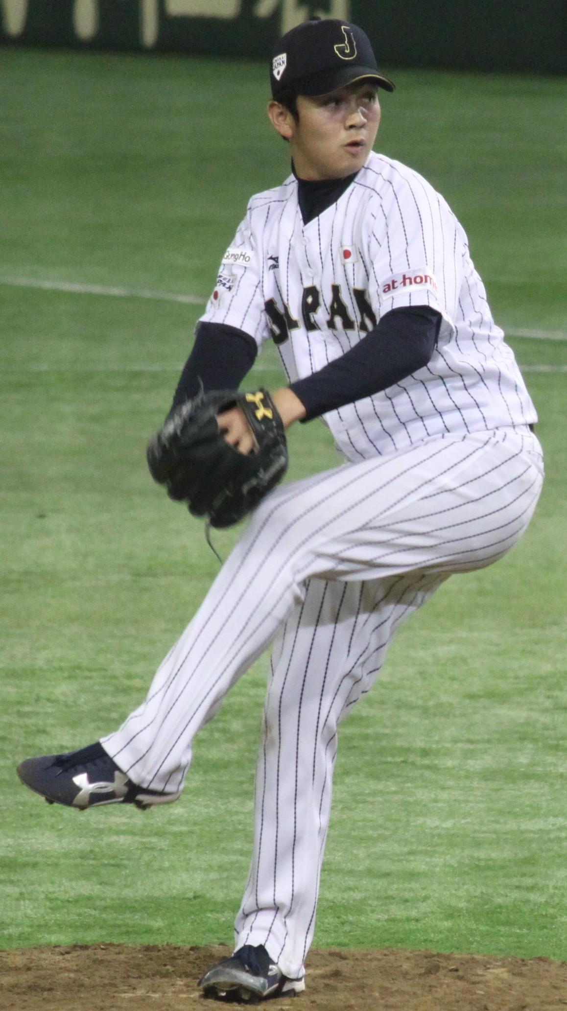 Yasuaki Yamasaki, pitcher of the Japan national baseball team, at Tokyo Dome.